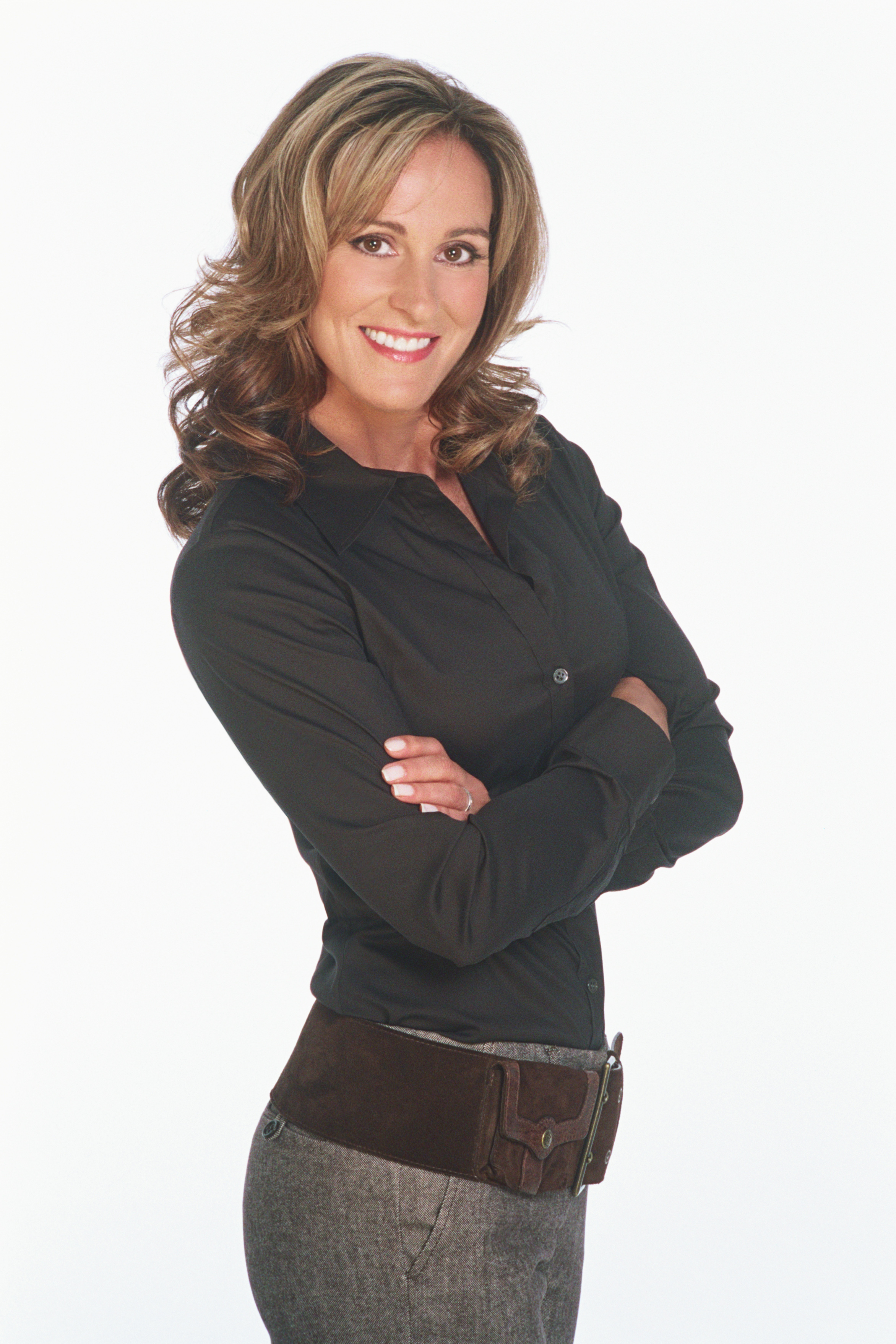 Image of author and personal trainer Kathryn Sansone.